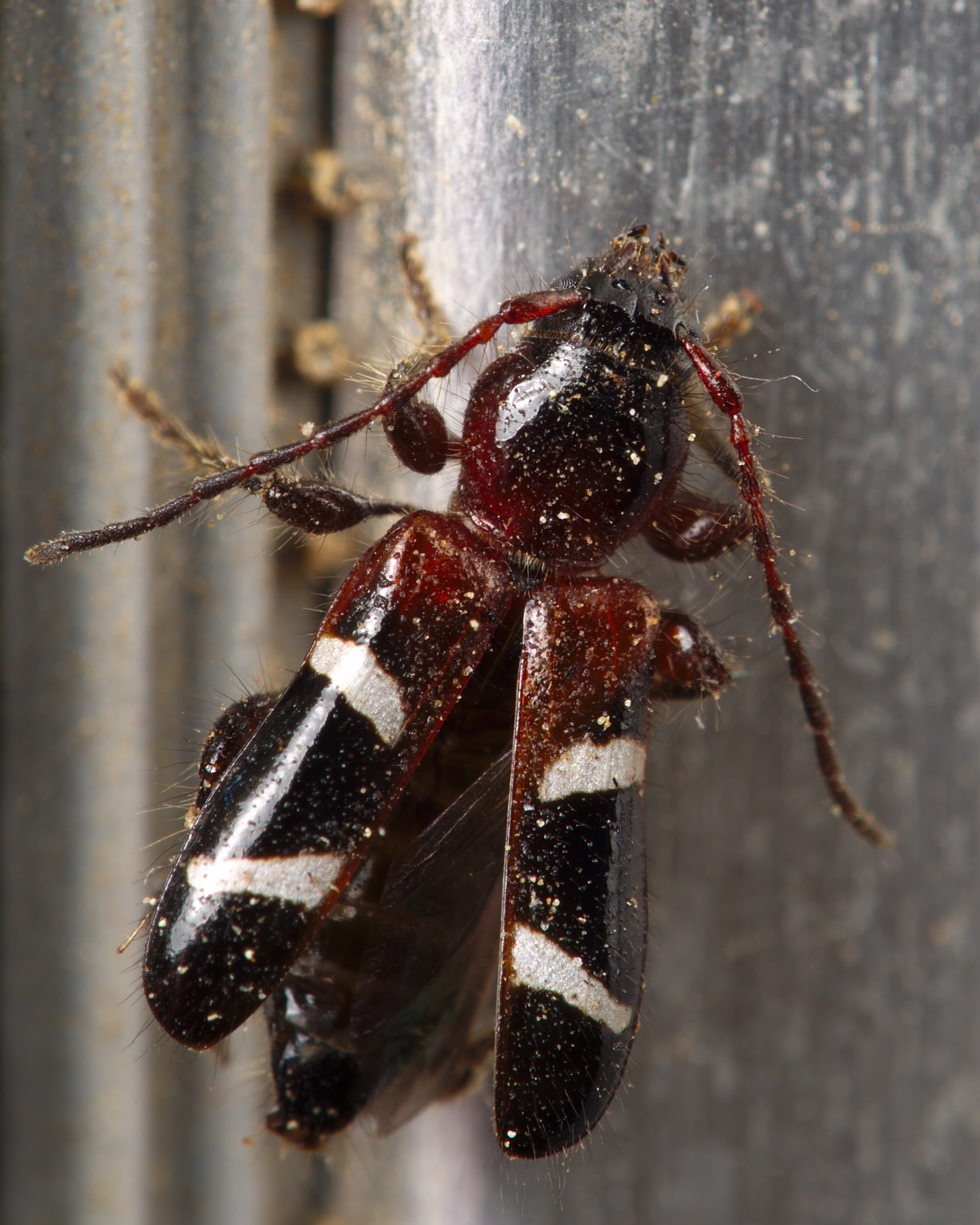 Longhorn beetle Phymatodes nitidus covered in pollen near Lake Isabella, California.